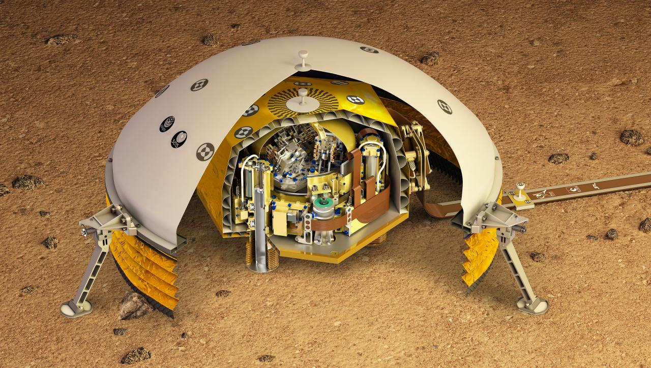 This artist's rendering shows a cutaway of the Seismic Experiment for Interior Structure instrument, or SEIS, which will fly as part of NASA's Mars InSight lander. SEIS is a highly sensitive seismometer that will be used to detect marsquakes from the Red Planet's surface for the first time. There are two layers in this cutaway. The outer layer is the Wind and Thermal Shield -- a covering that protects the seismometer from the Martian environment. The wind on Mars, as well as extreme temperature changes, could affect the highly sensitive instrument. The inside layer is SEIS itself, a brass-colored dome that houses the instrument's three pendulums. These insides are inside a titanium vacuum chamber to further isolate them from temperature changes on the Martian surface. JPL, a division of Caltech in Pasadena, California, manages the InSight Project for NASA's Science Mission Directorate, Washington. Lockheed Martin Space, Denver, built the spacecraft. InSight is part of NASA s Discovery Program, which is managed by NASA's Marshall Space Flight Center in Huntsville, Alabama. For more information about the mission, go to